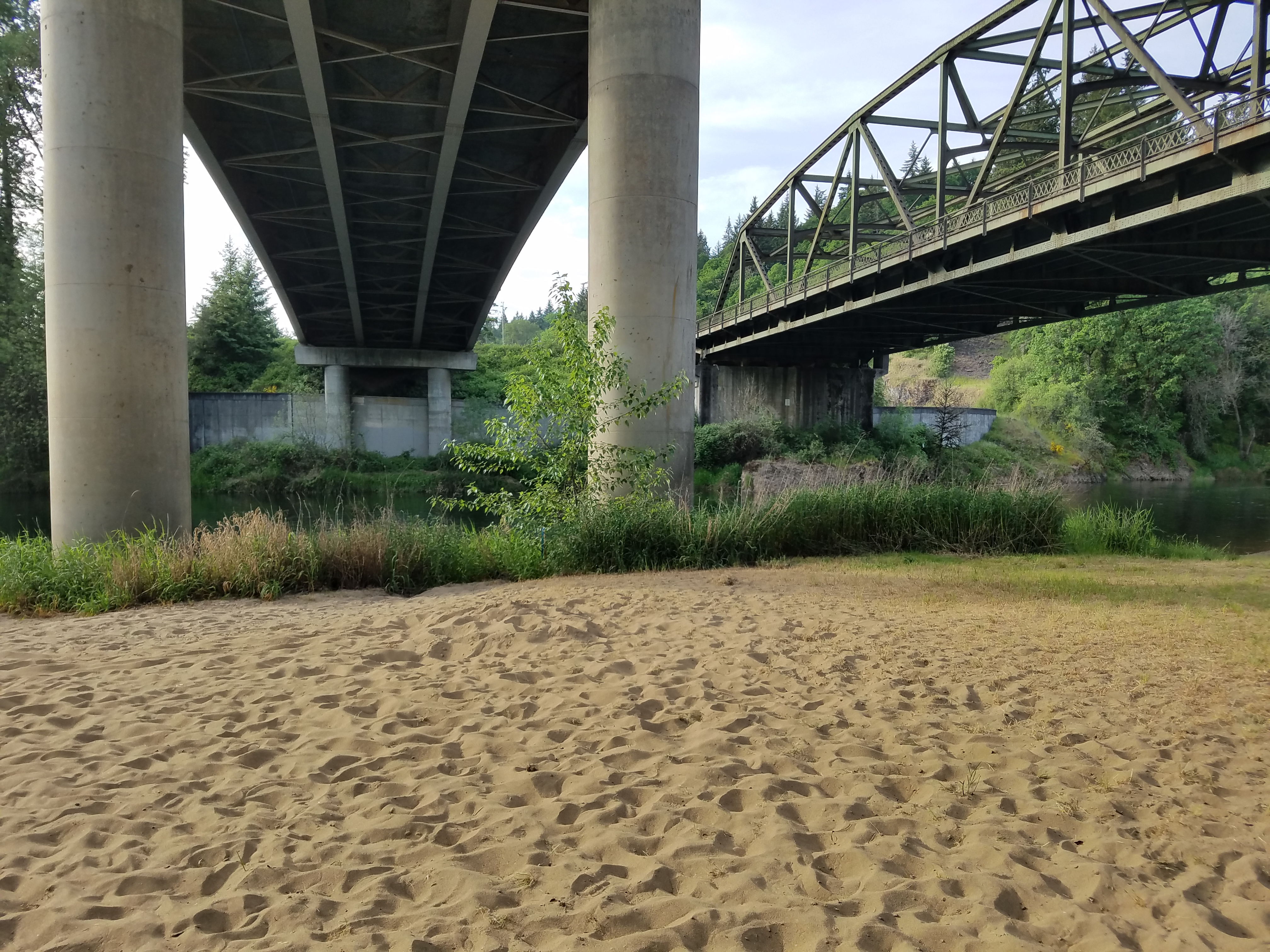 Paradise Point beach area in Paradise Point State Park (Washington), adjacent to the East Fork Lewis River under the Interstate 5 bridges that cross the river.